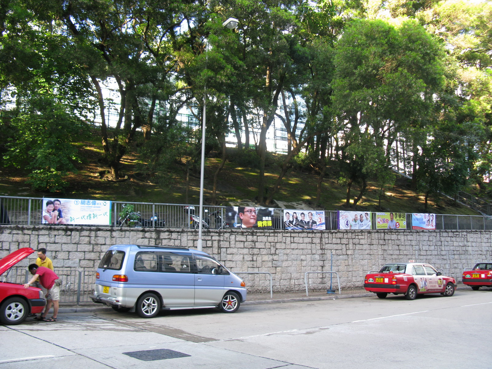 2008 Legislative Council Election Kowloon East Geographical Constituency